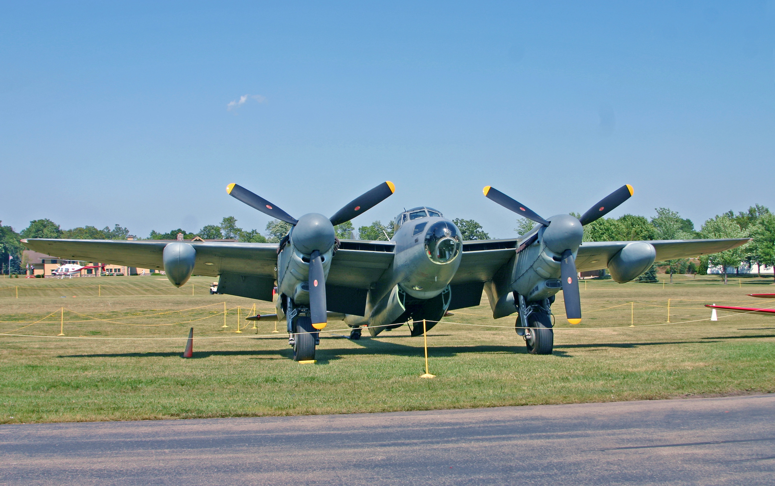 Kermit Week's B.Mk 35 (RS712) at the AirVenture Museum, Oshkosh, Wisconsin.